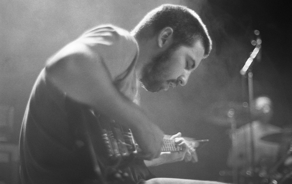 This Will Destroy You @ Lido, Berlin, July 19th 2009